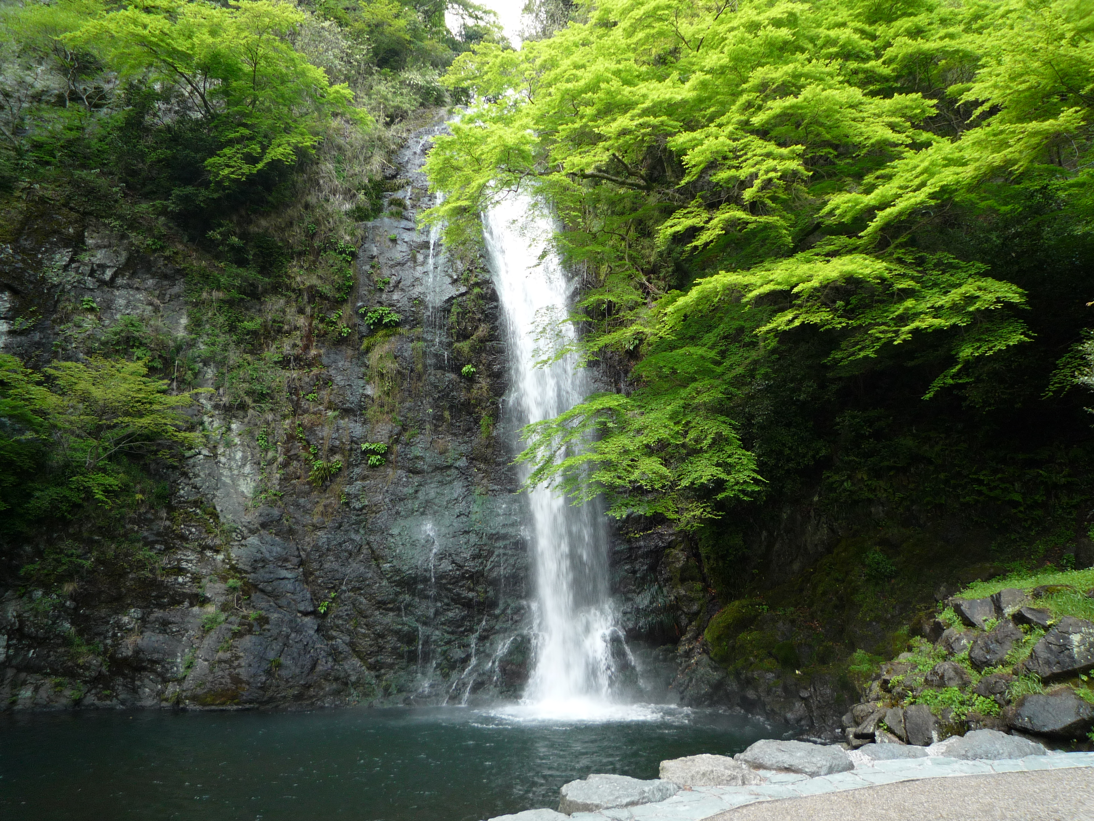 Minoh,osaka